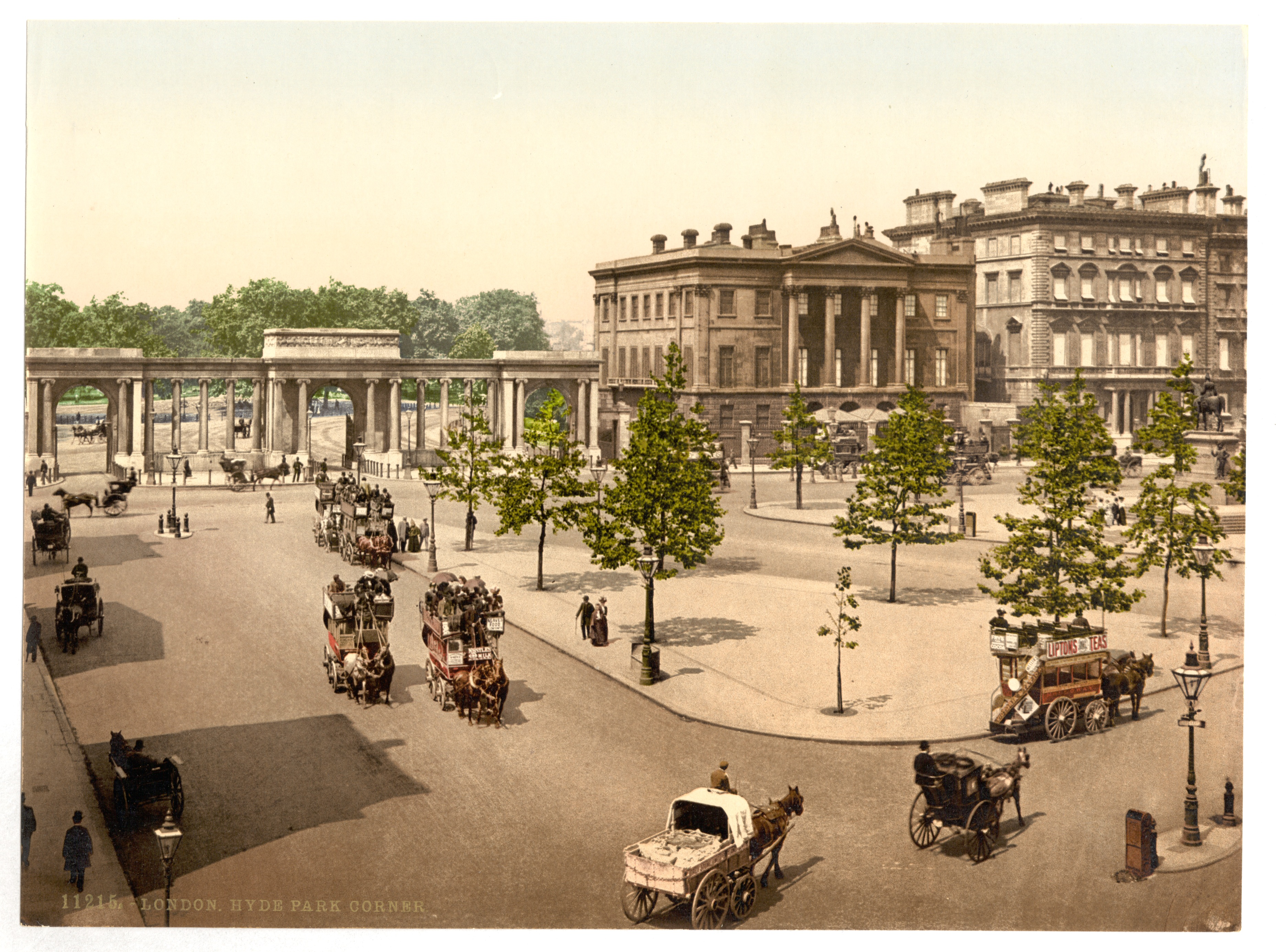 Forms part of: Views of the British Isles, in the Photochrom print collection.; Print no. "11215".; Title from the Detroit Publishing Co., Catalogue J-foreign section, Detroit, Mich. : Detroit Publishing Company, 1905.; More information about the Photochrom Print Collection is available at